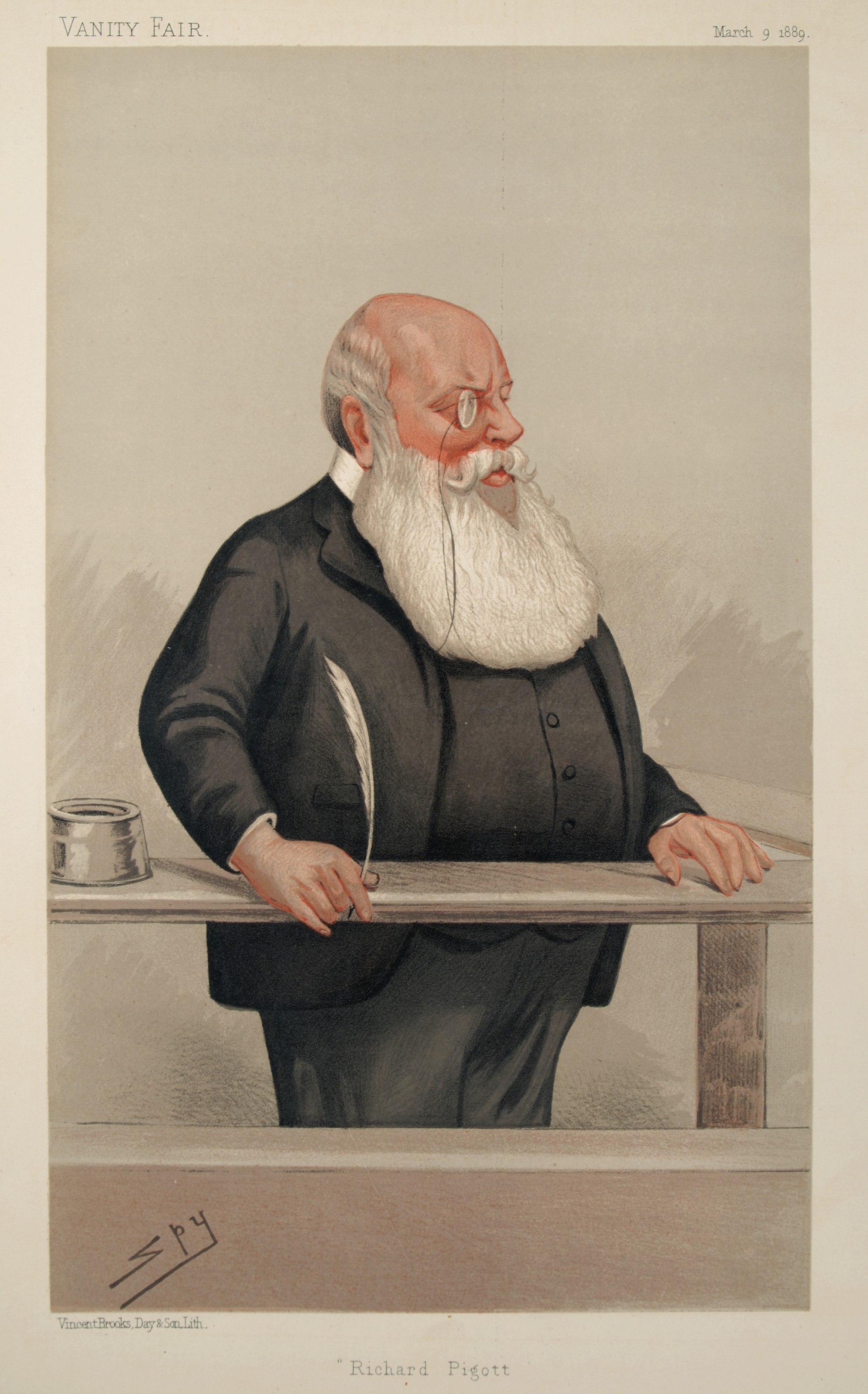 Men of the Day No. 418: Caricature of Richard Piggott. Caption read: "Richard Pigott"